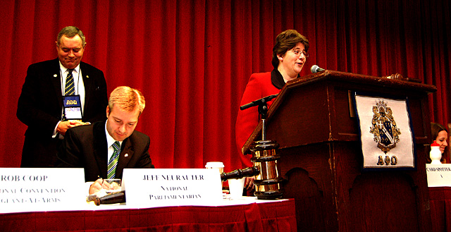 Alpha Phi Omega's first female national president, Maggie Katz, addressing the convention delegates immediately following her election on December 30, 2006, in Louisville. Also pictured is Past National President, Dr. Stan Carpenter, and National Parliamentarian, Jeff Neurauter.